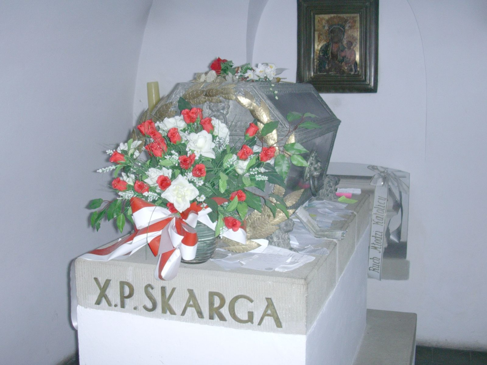 The tomb of Piotr Skarga - Polish Jesuit, preacher, hagiographer, polemicist, and leading figure of the Counter-reformation in the Polish-Lithuanian Commonwealth - in the church in Kraków (Cracow).